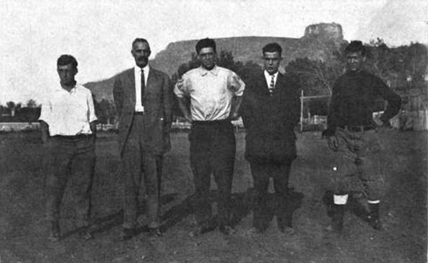 Photograph of the Colorado School of Mines coaching staff in 1910. From left: E.G. Stuart, asst. coach; W.C. Bryan, athletic director; Theodore M. Stuart, head coach; E.J. Dittus, manager; William Douglas, captain